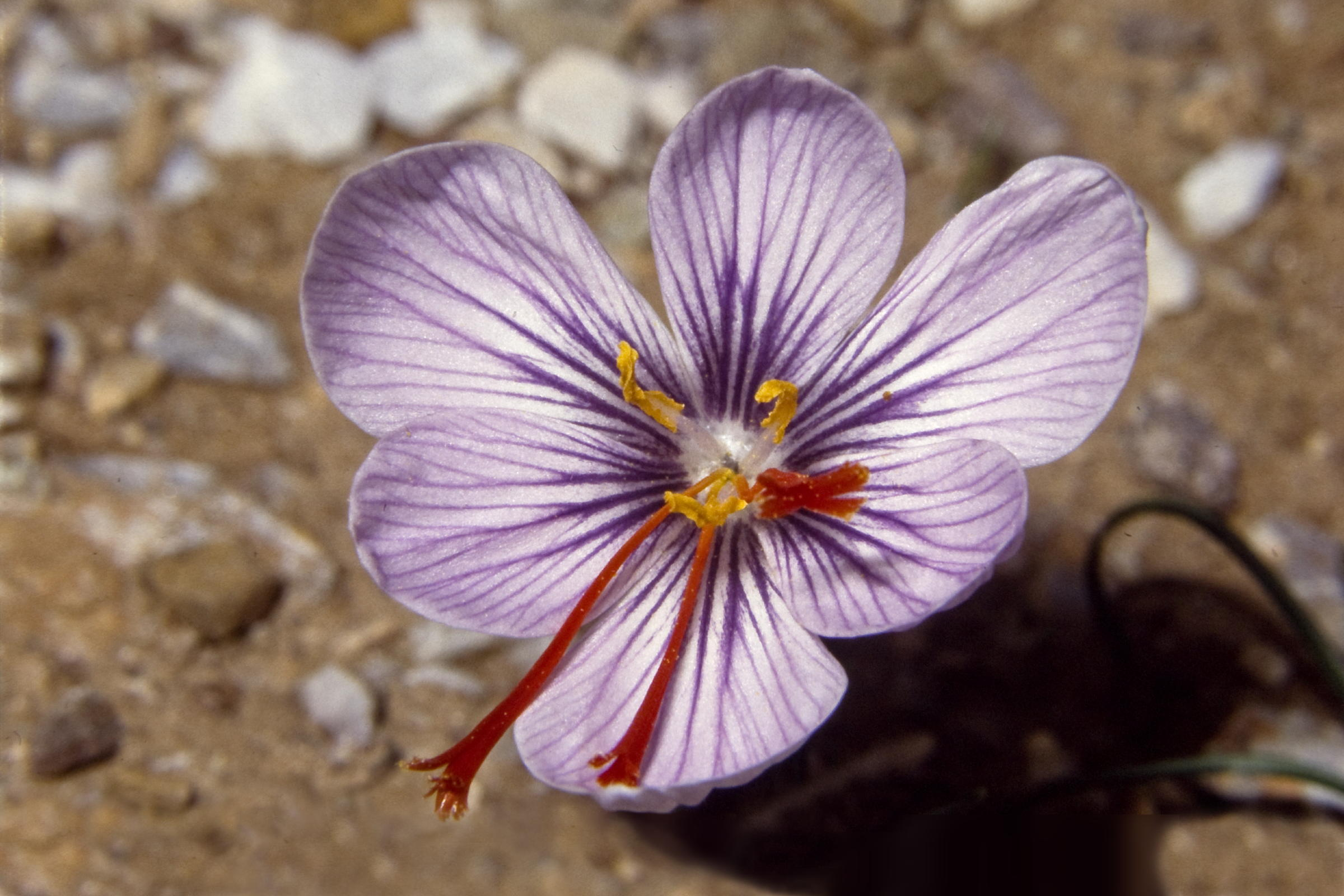 Crocus cartwrightianus growing near the temple at Sounion, Greece, 15 November 1991